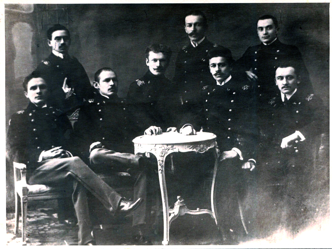 Molla Nur Vahidov St. Petersburg Politeknik Enstitüsü'nde. Mullanur Vakhitov in St. Petersburg Polytechnic Institute